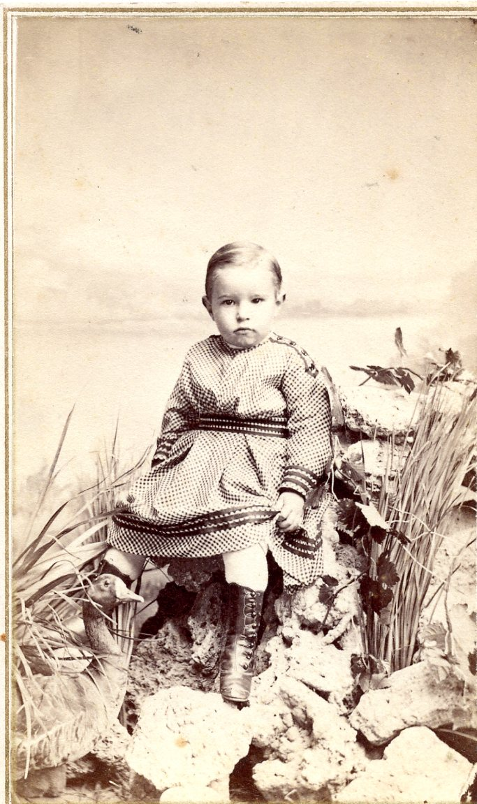 Carte de Visite of a small boy. The boy wears a dress and is posed seated in a nature-like setting that includes a stuffed goose.